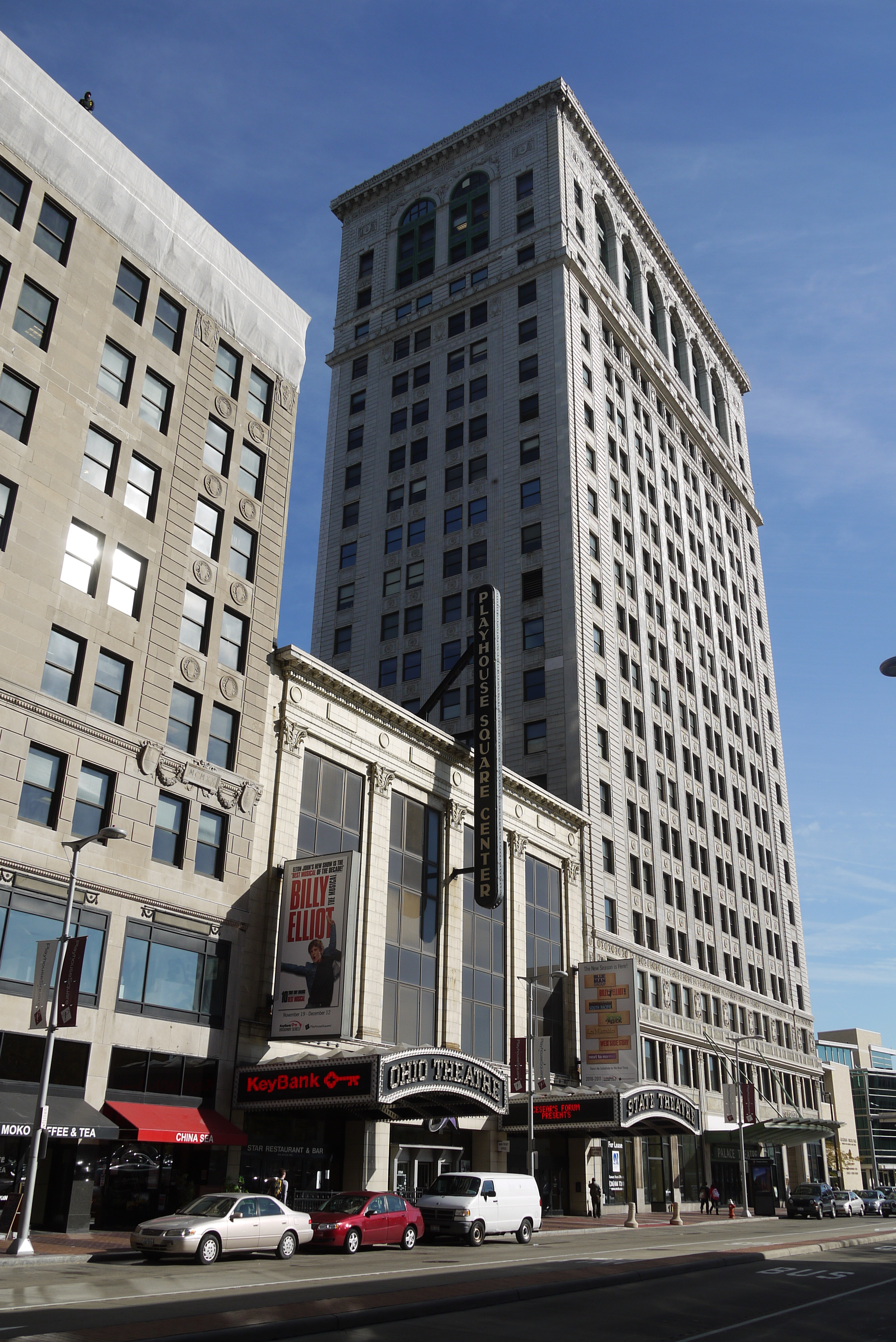 A portion of the Playhouse Square complex in downtown Cleveland, Ohio, looking east down Euclid Avenue